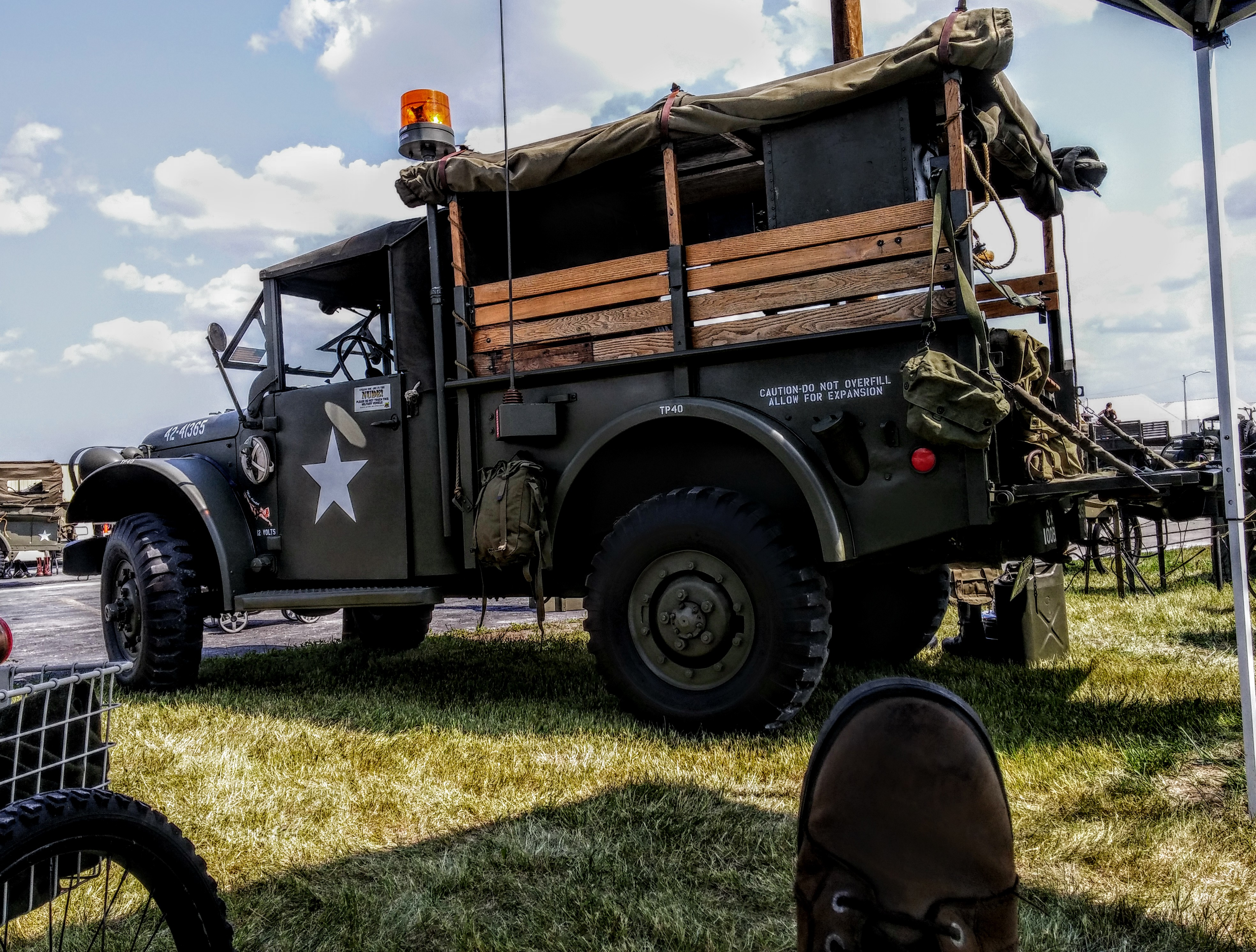 M37 at the typical military show